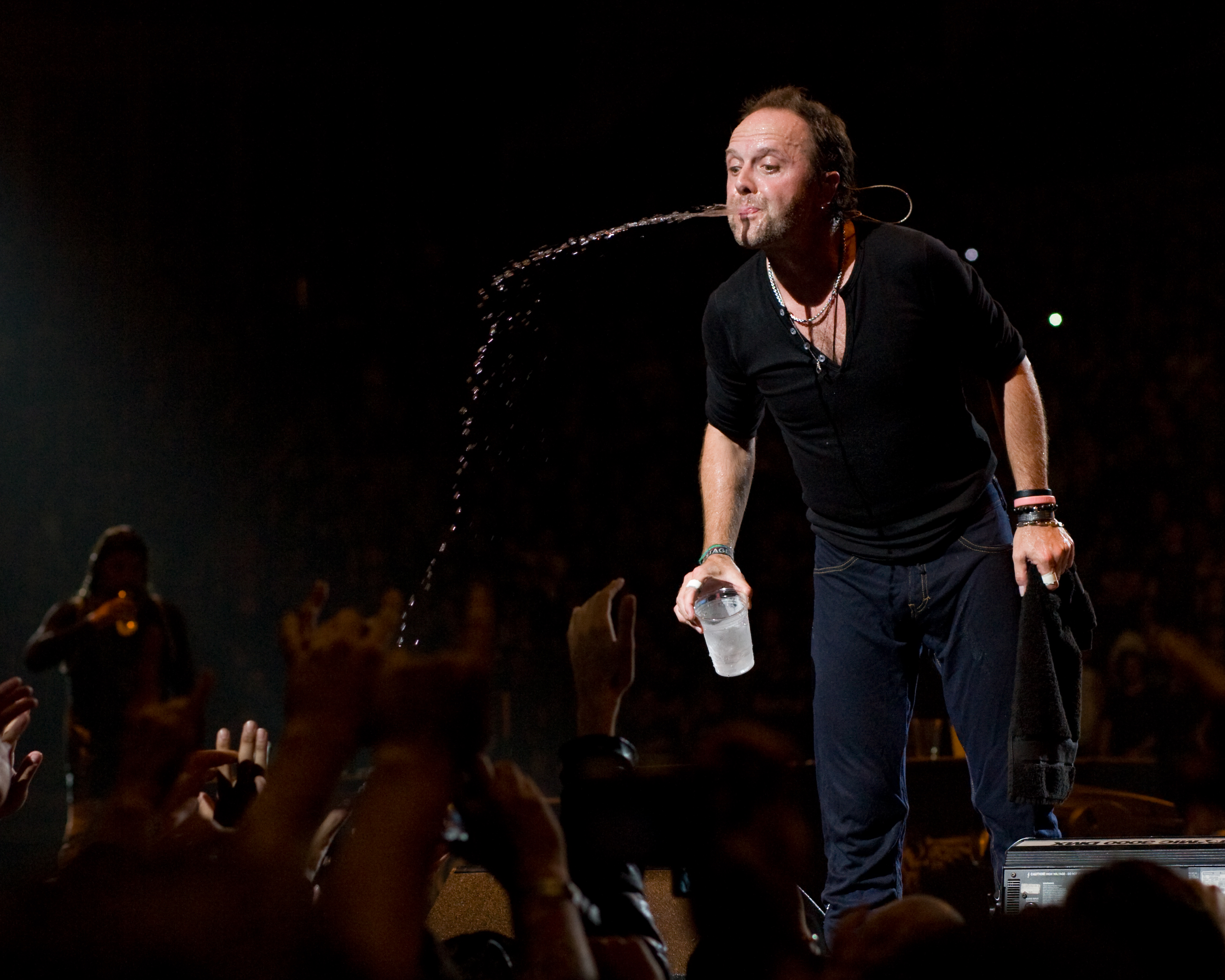 Lars Ulrich spits water on the audience at The O2 Arena, London, UK.